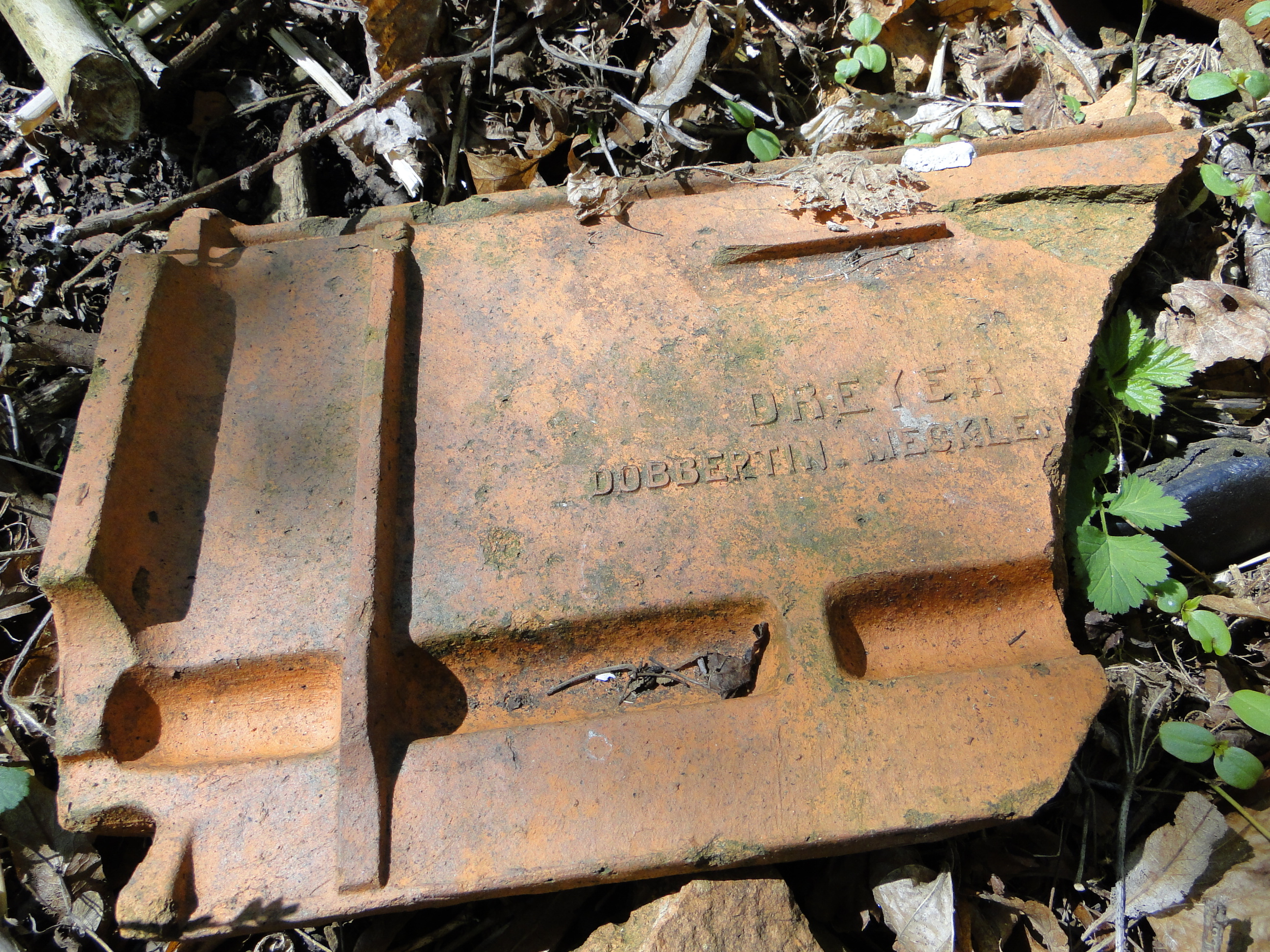 Old roof tiles of Dreyer brickyard / Dobbertin in Garder Mühle, district Güstrow, Mecklenburg-Vorpommern, Germany